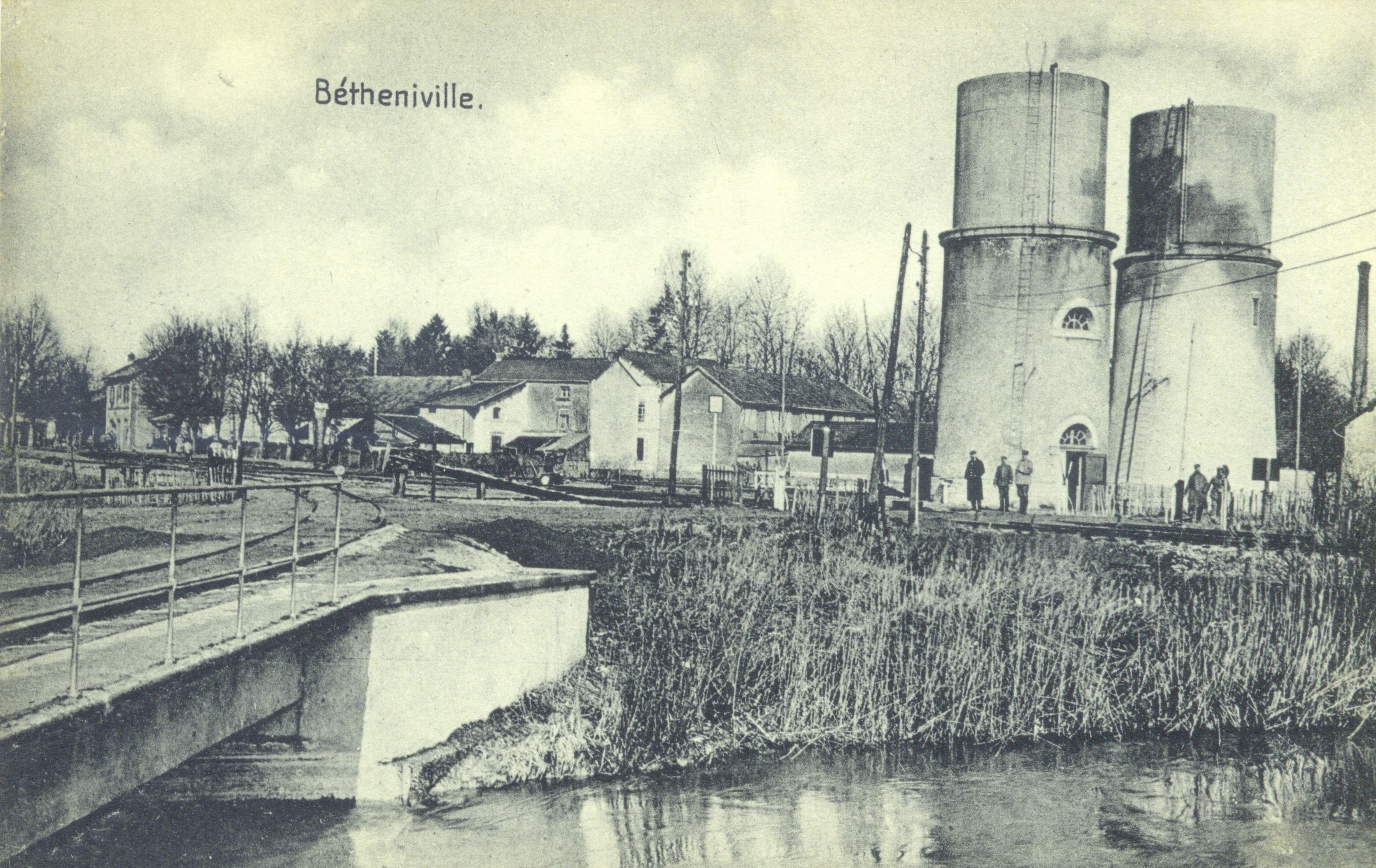 Persistent URL: Subject: World War I; Cities & towns; Factories; France--B?theniville; miami digital collections; bowden postcard collection